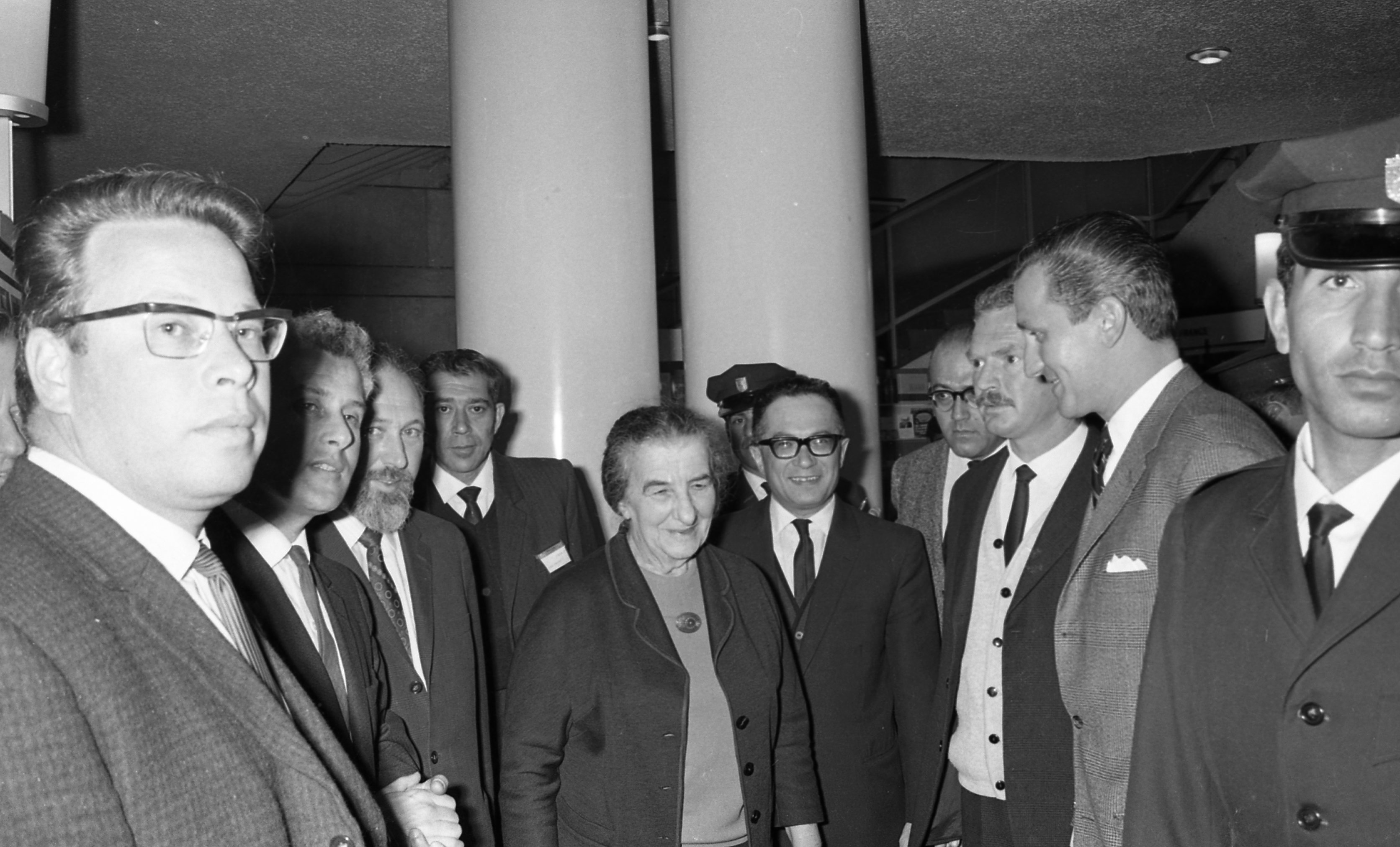 Jerusalem International Book Fair, 1969.